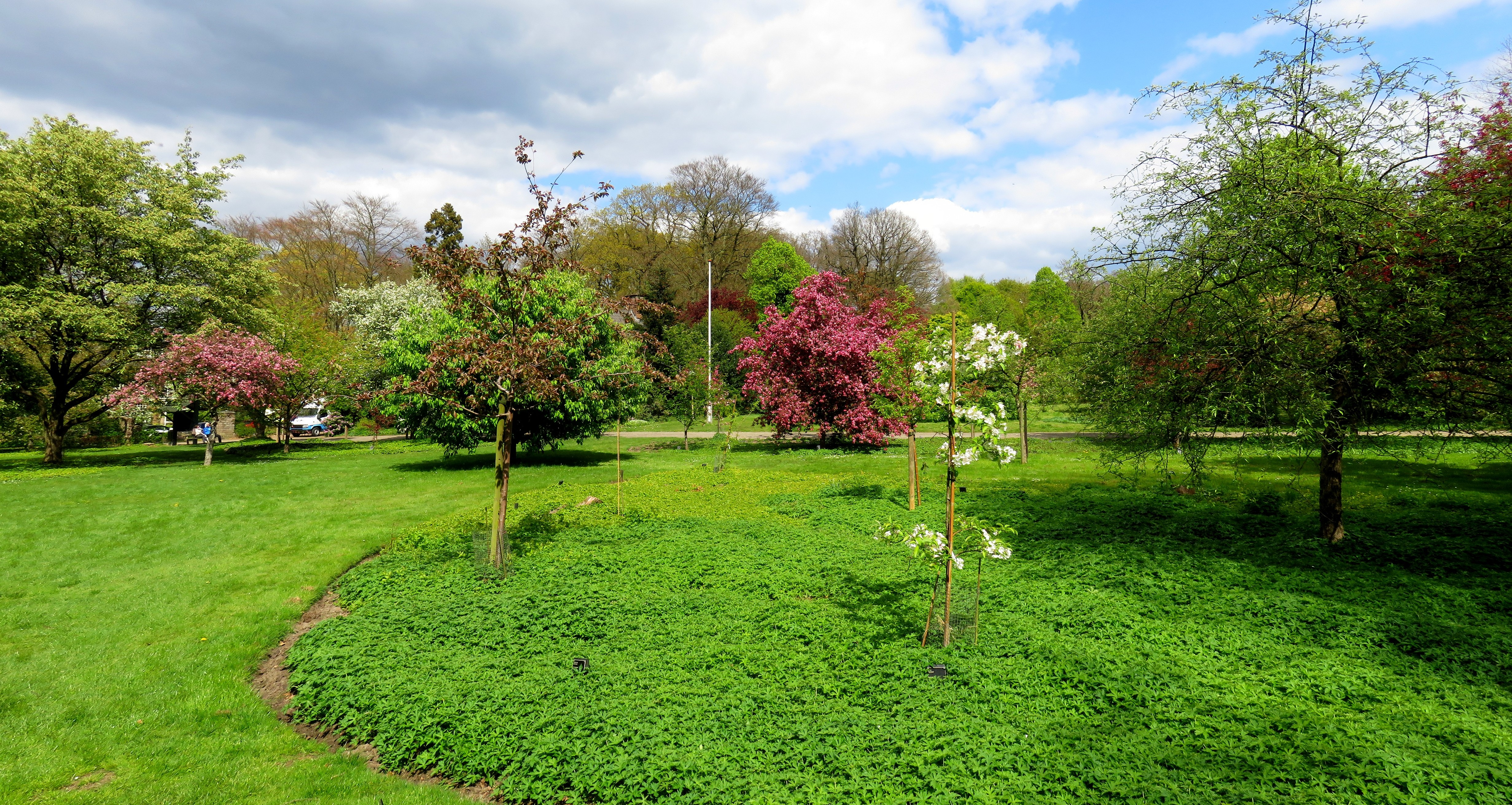 Arboretum Belmonte, Wageningen (NL) with a blooming Malus 'Evereste' and left behind the dark pink blooming Malus 'Rudoph'